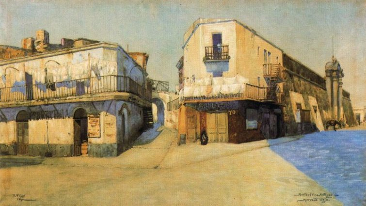 A corner of Montevideo in the late XIX Century